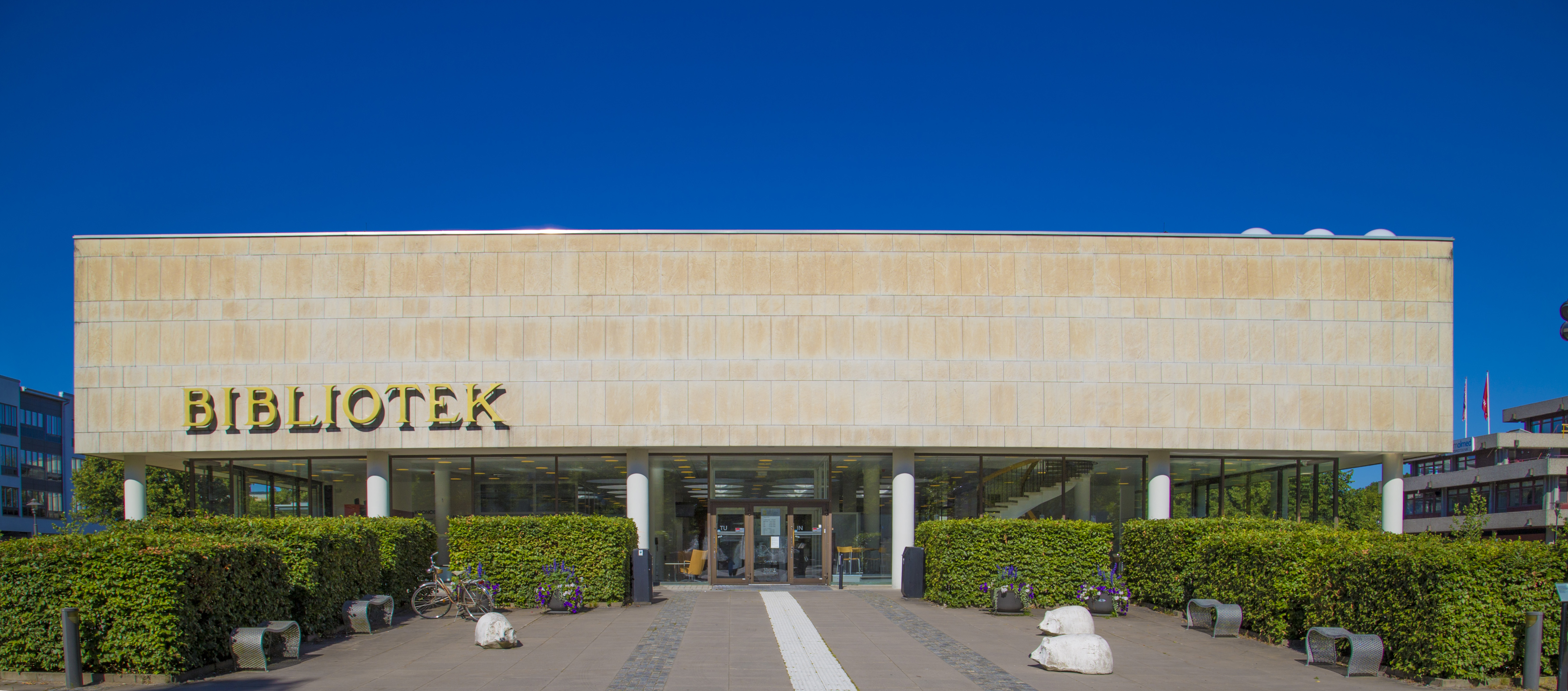 Växjö Public Library